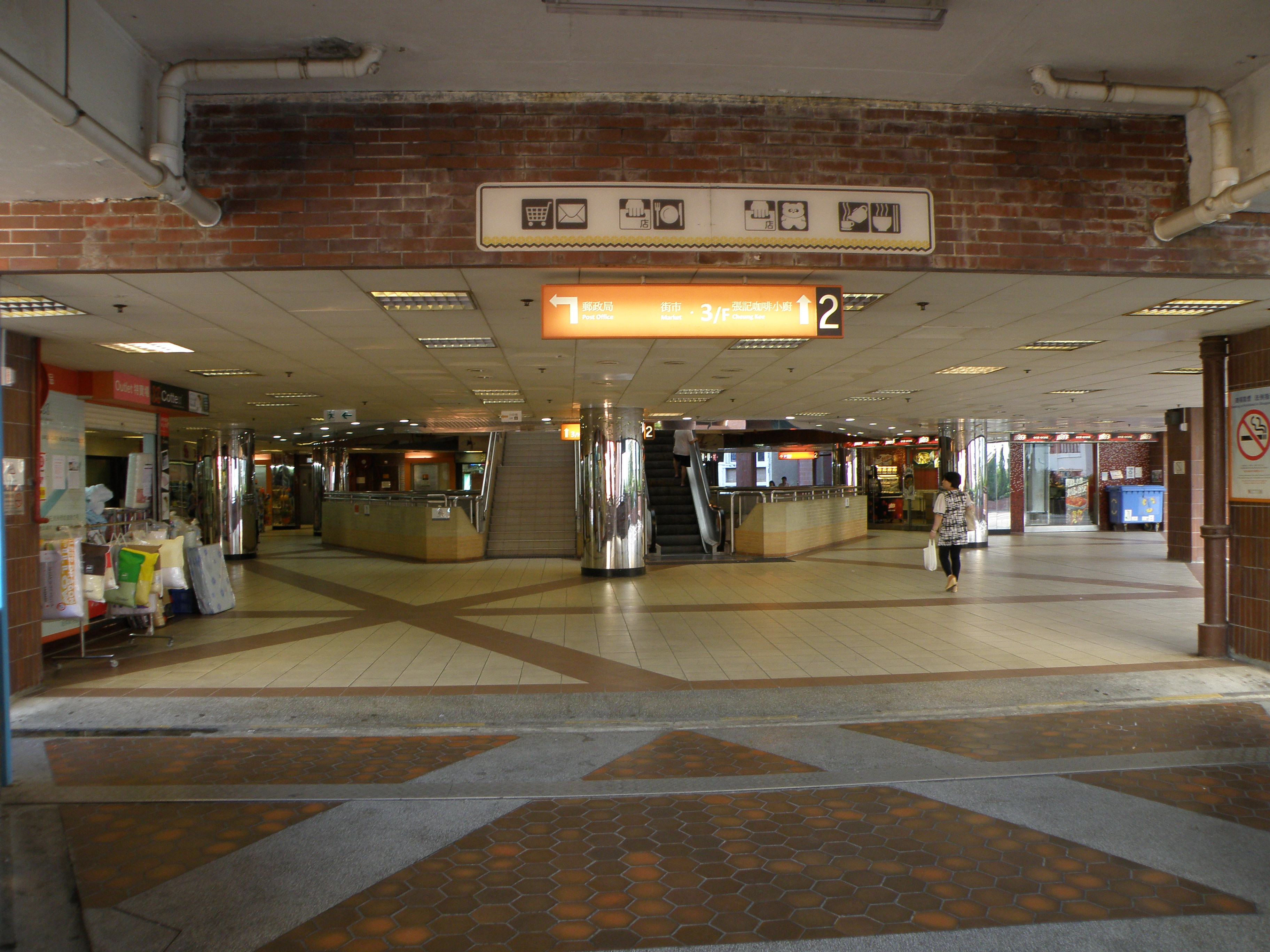 Lei Tung Commercial Centre in Ap Lei Chau, Hong Kong.